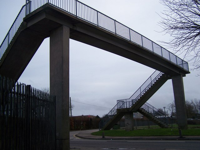 Footbridge over A2 London Road Leads from Canute Road (behind viewer) and Kingsnorth Road (further down A2 on left), to The Abbey School.